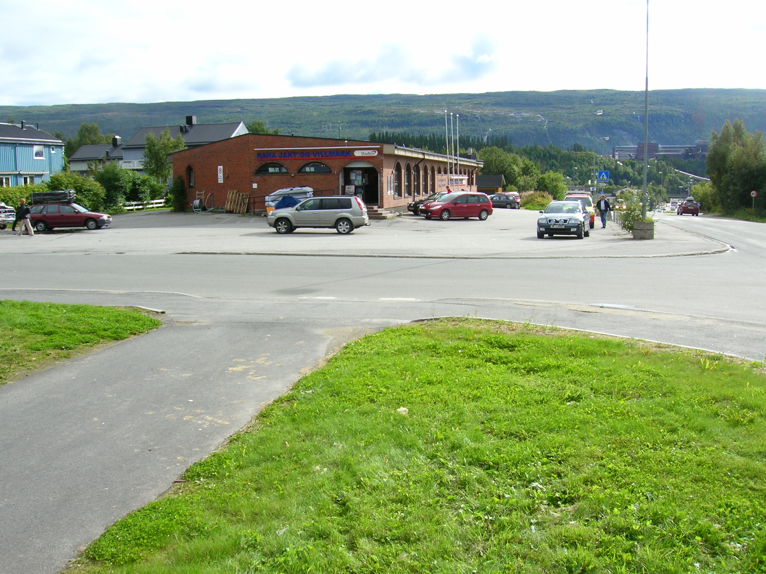 Rana jakt og villmark on Selfors, 4 km north of Mo i Rana, Rana municipality, county of Nordland, Norway, Photo 3 September, 2007 with a Nikon Coolpix 5600 5,1 Megapixel camera.